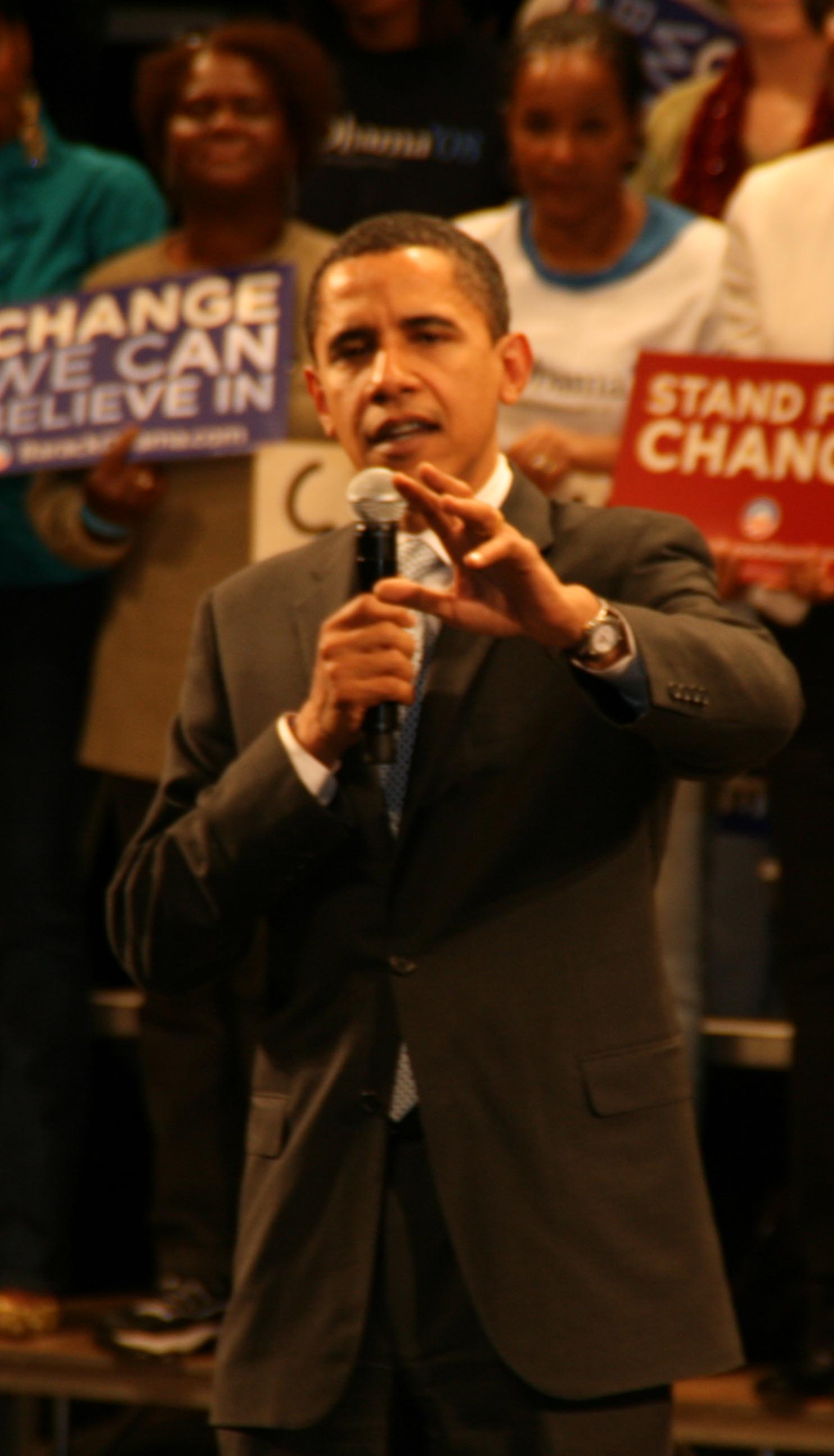 Presidential candidate Barack Obama: University of South Carolina, Columbia, South Carolina, USA)